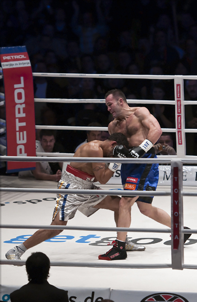 2011 boxing event in Stožice Arena